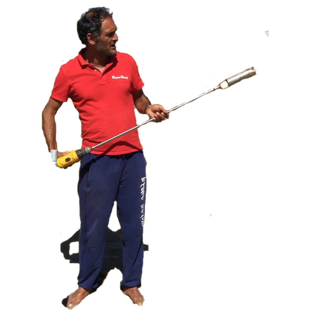 Trivella